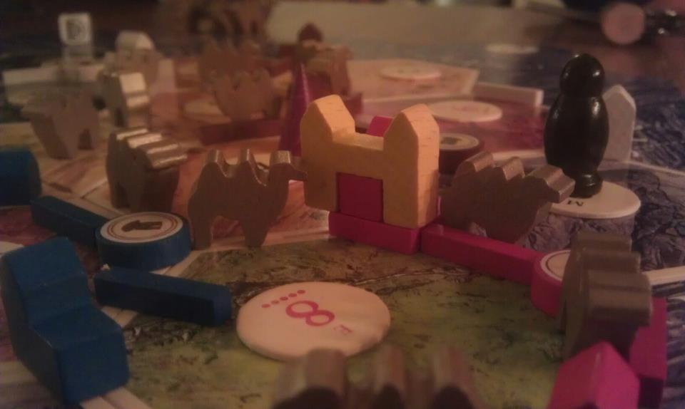 Catan Barbarians and Traders combined with Cities and Knights:The Caravans is a variation, originally released as a separate (German-only) mini-expansion, which introduces three caravan routes heading forth from a desert oasis. Whenever a settlement is built or upgraded, a voting round occurs for the right to place a camel on the board. For each vote, a player pays one wheat or one sheep (in Cities and Knights, bricks or logs are used instead). Camels are placed starting at the oasis hex (replacing the desert hex in this scenario) on the road network, and must be either adjacent to other camels or adjacent to one of the three indicated intersections on the oasis tile. Camel routes may never branch, though two or all three of the camel routes may join together. Settlements and cities on a camel route are worth an additional victory point, and roads, bridges, or ships (unlike real camels, when combined with Seafarers these camels can swim) with camels count double for the purposes of Longest Road.